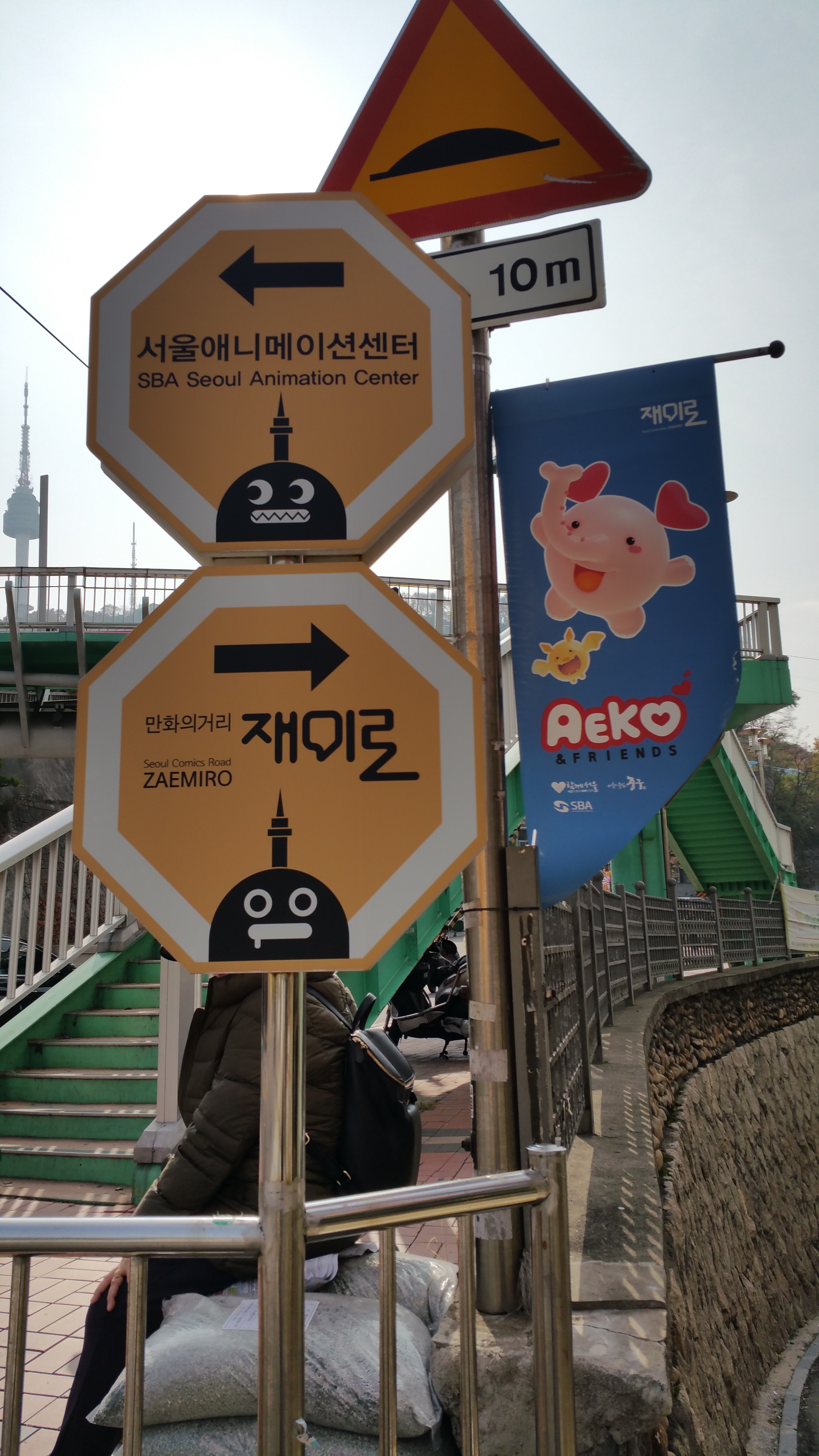 Zaemiro, Cartoon Street, Seoul.